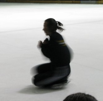 Candeloro doing his Signature Spin